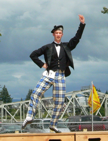 Premier division Highland dancer at the 2007 Skagit Valley Highland Games. The dancer is wearing trews, an allowable attire (along with the kilt) for male dancers in the Scottish National dances.